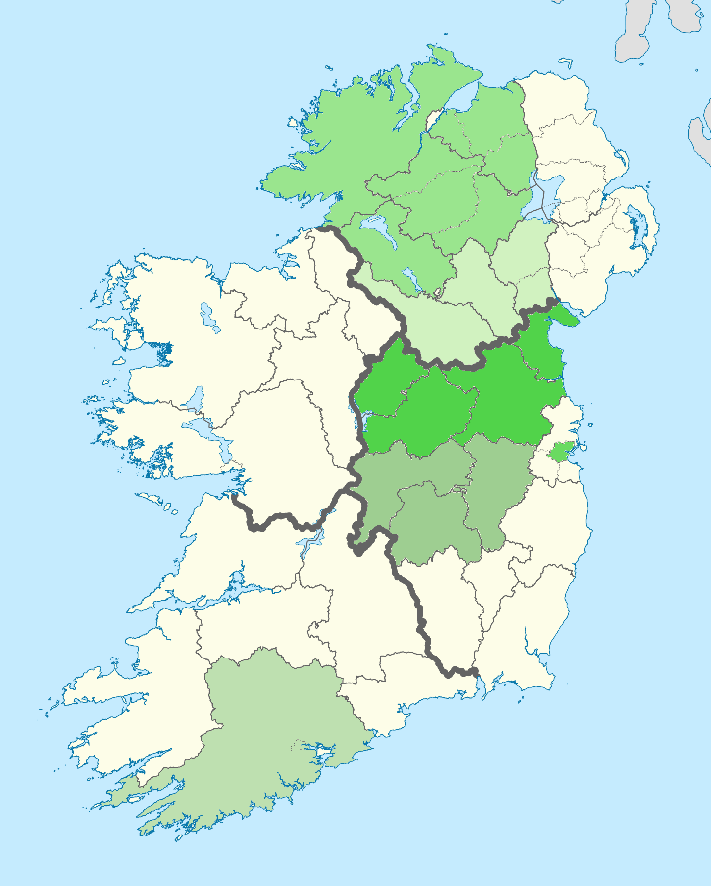 Map showing the extent of the Pevsner Architectural Guides in the Buildings of Ireland Series as at March 2019.